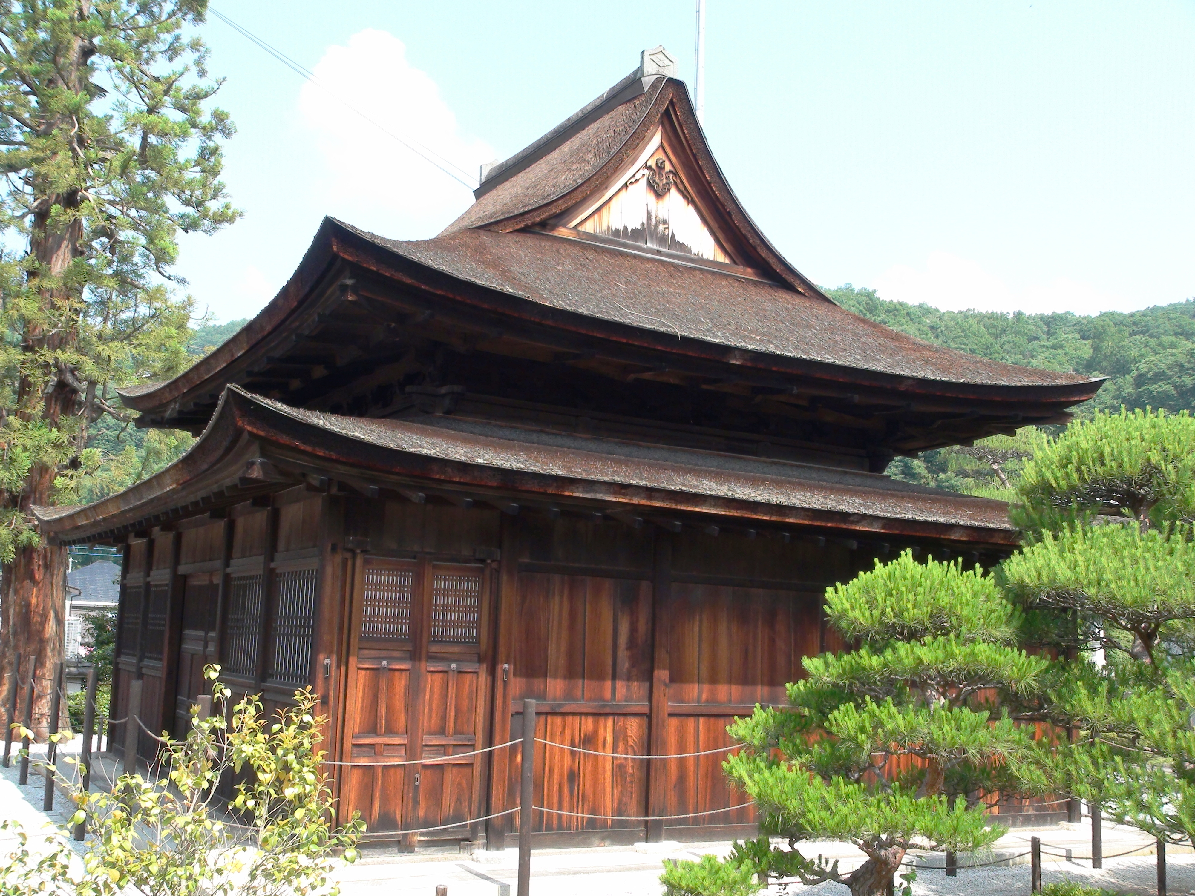 Tokoji-temple Kofu-city Yamanashi Japan